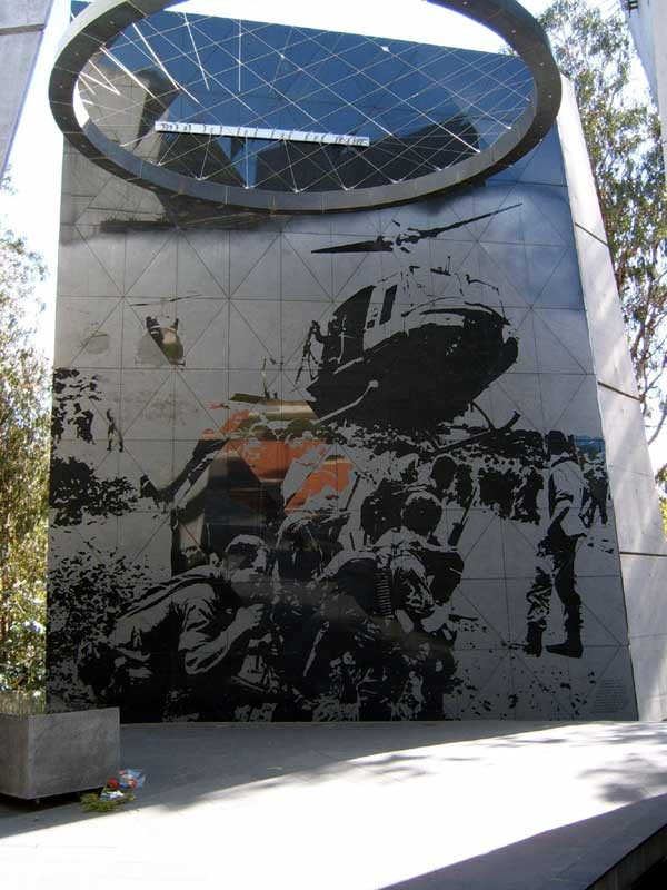 Vietnam War Memorial on ANZAC Parade, the ceremonial and memorial avenue of Canberra, Australia. Images are etched onto the inner surface of the back wall. I took this picture on Thursday en:28 April en:2005. Peter Ellis 04:18, 30 Apr 2005 (UTC)